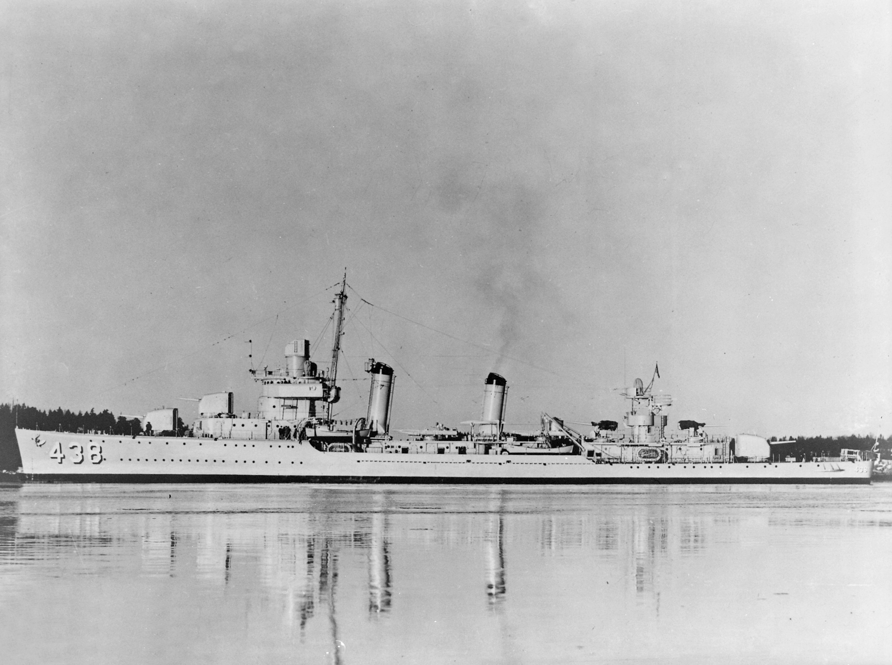 The U.S. Navy destroyer USS Ludlow (DD-438) underway on the Kennebec River, Maine (USA), in March 1941.